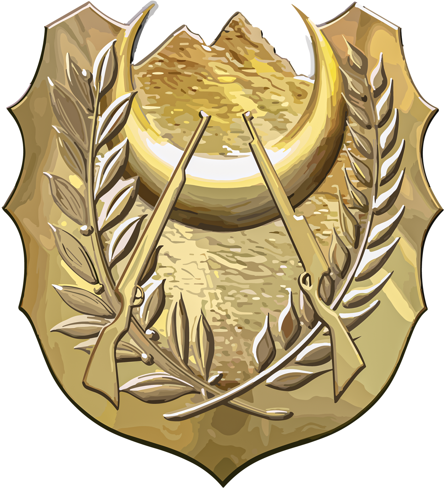 Popular National Army Official sign of the Algerian army